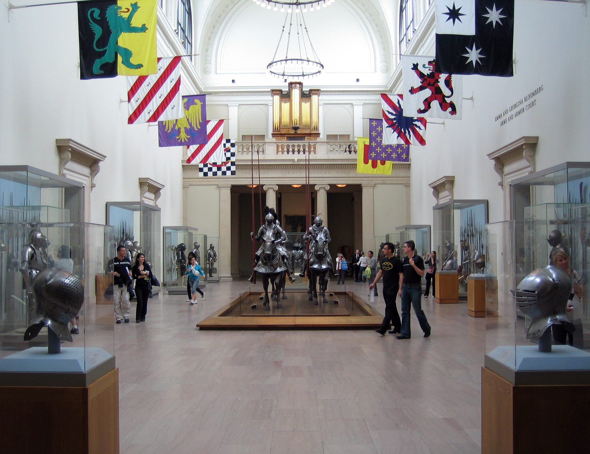 The Main hall of the Arms and Armor collection of the Metropolitan museum of Art in NYC